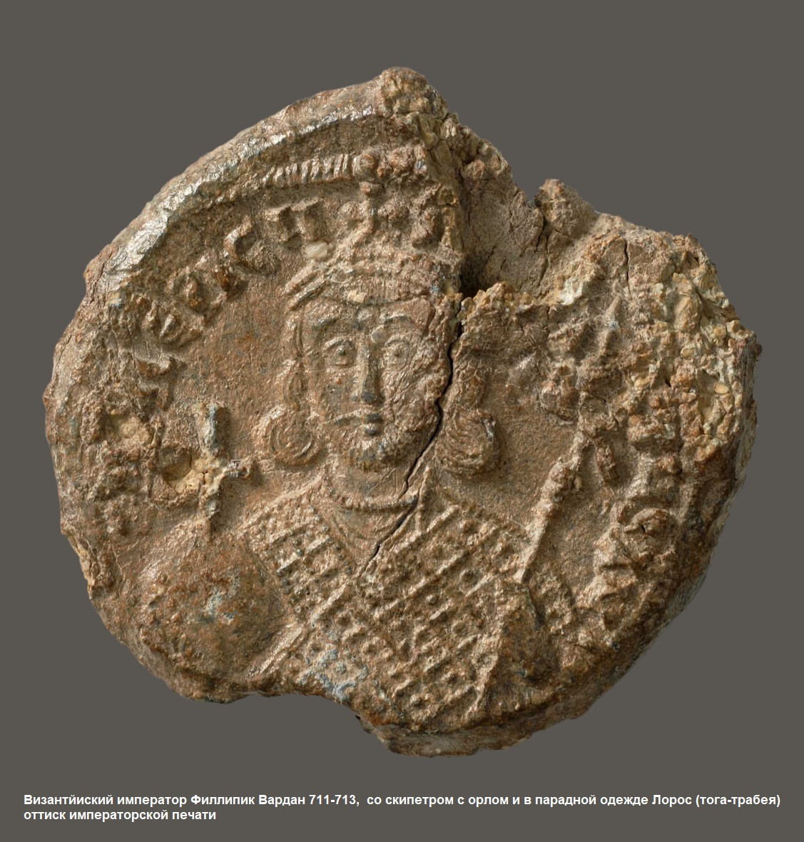 Byzantine emperor Philippikos Bardanes 711-713 imprint of imperial seal for documents